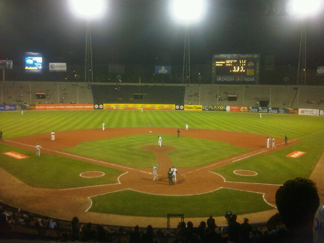 UCV